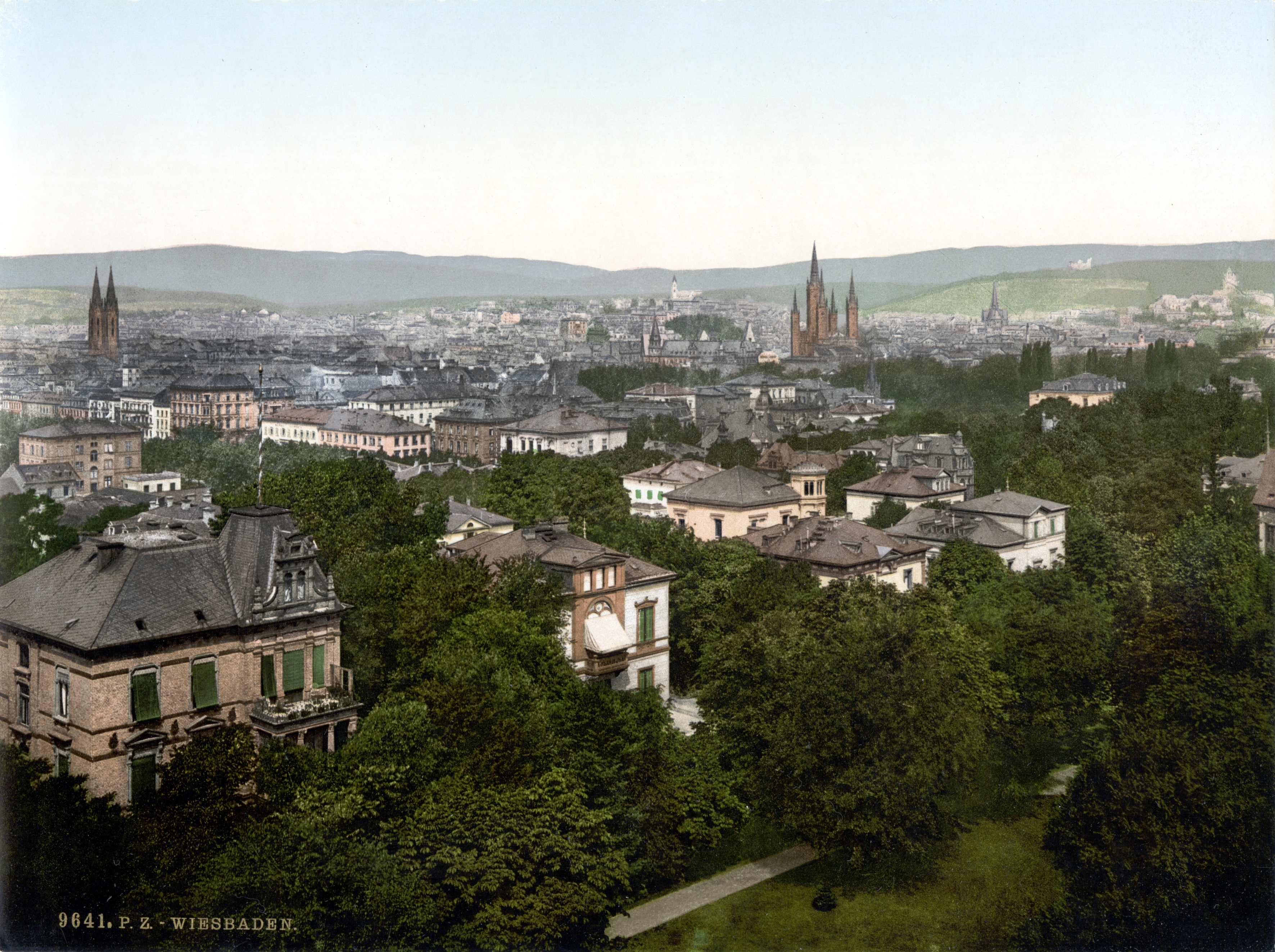 Wiesbaden - view over the city